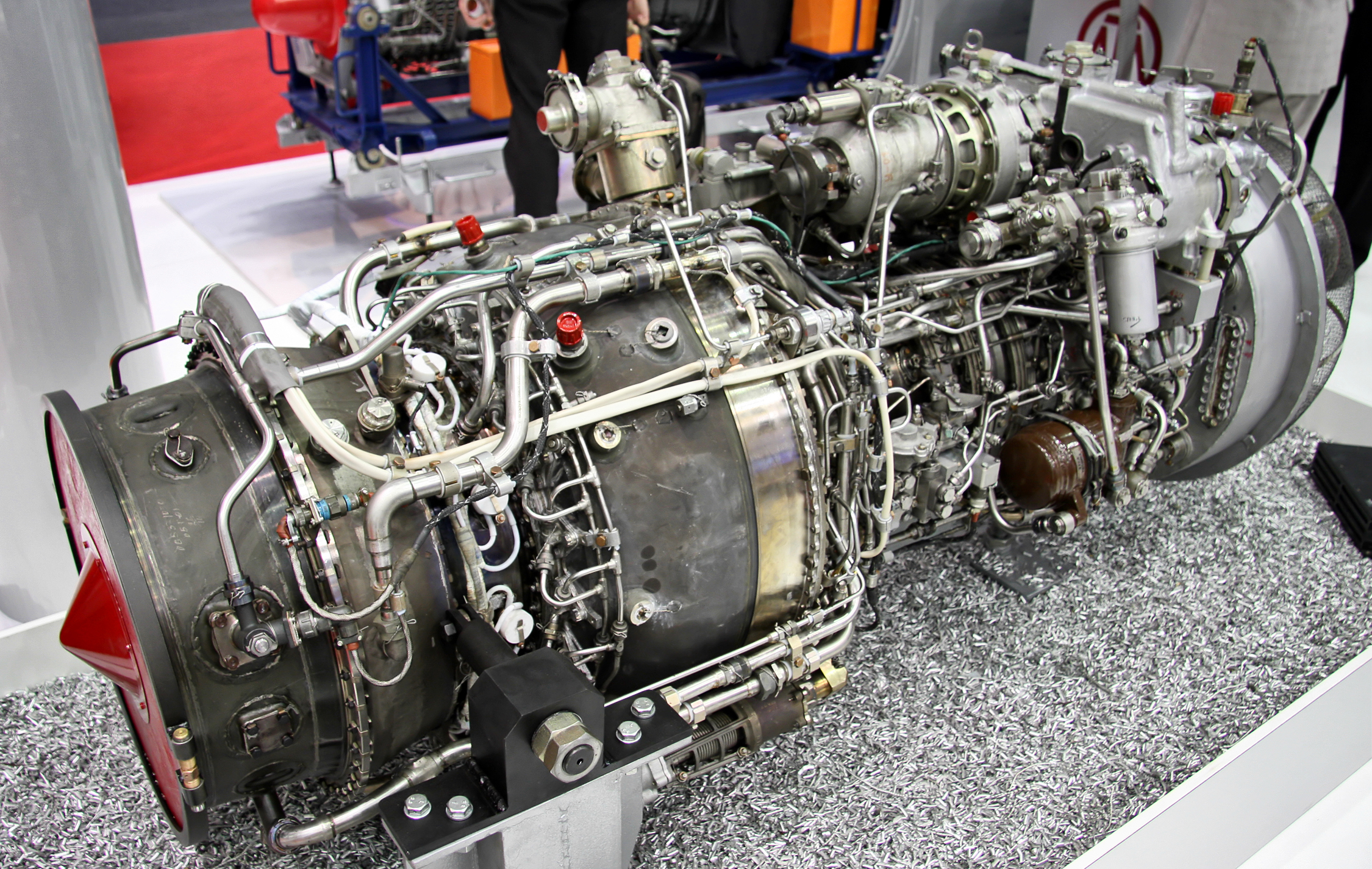 TV7-117V engine for Mi-38 in 4th International Helicopter Industry Exhibition HeliRussia 2011